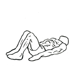 An exercise of lower abs.